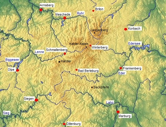 Overview-map of the Rothaargebirge-mountains in Germany